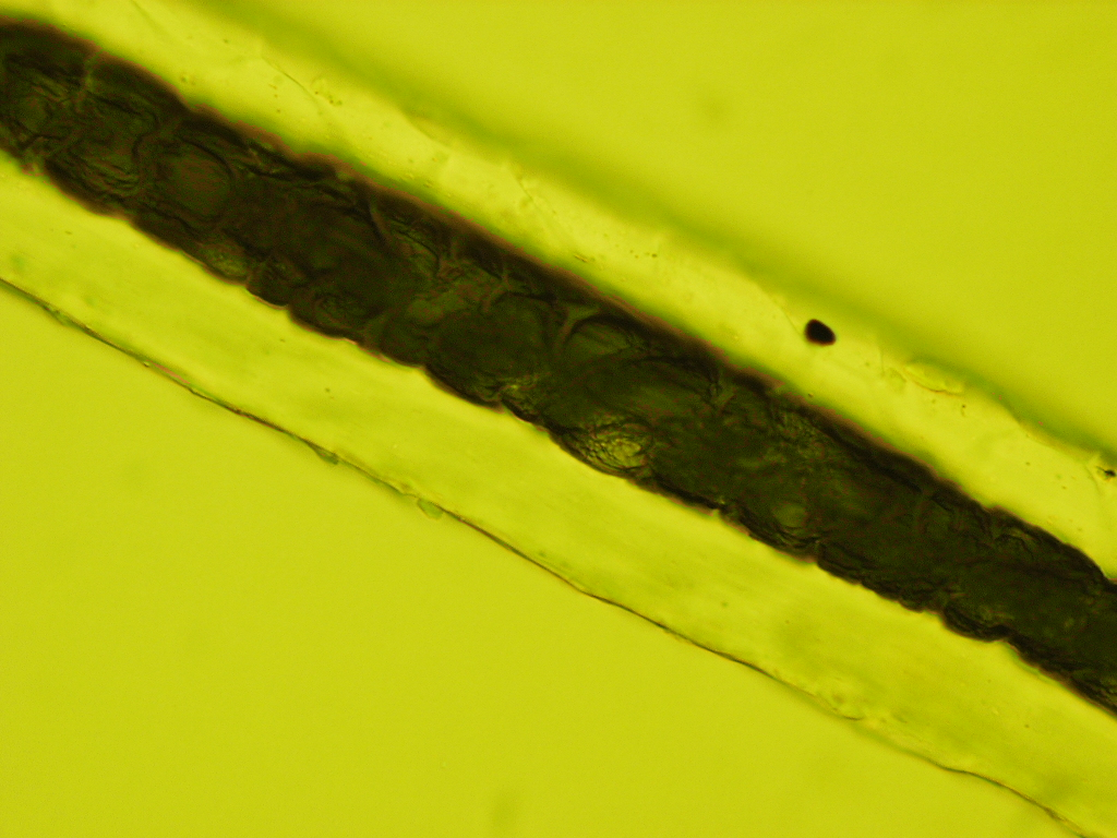 Coarse Wool 40X Magnification Taken at Strathclyde University Forensic Science Department Taken By Edward Dowlman